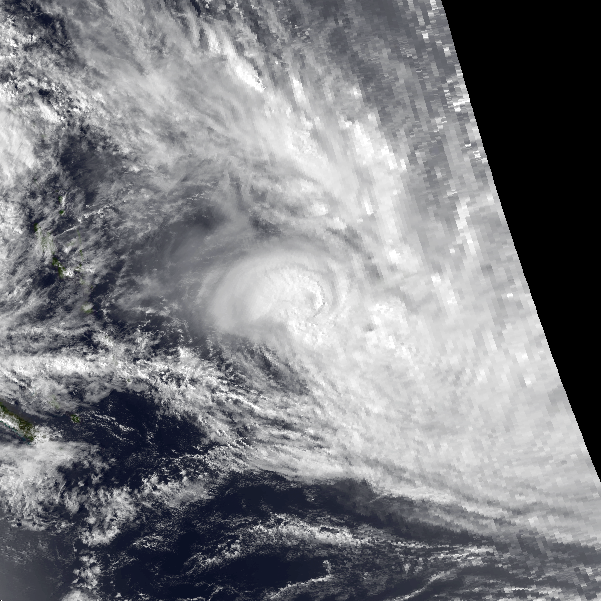 Severe Tropical Cyclone Eric on January 17, 1985